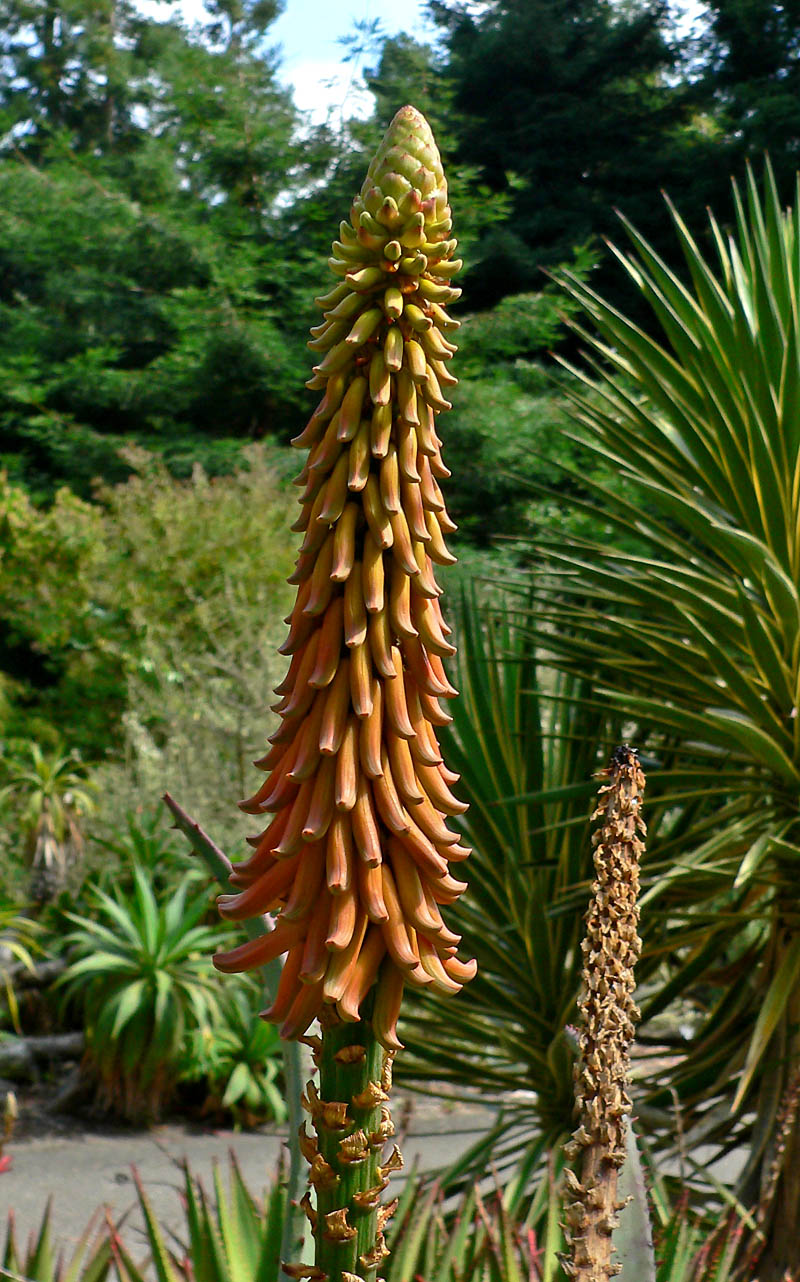 Photo of Aloe africana at the San Francisco Botanical Garden